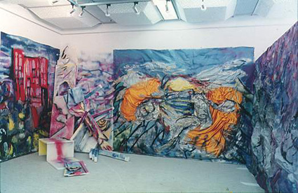 Neiger's installation at Ben-Gurion University